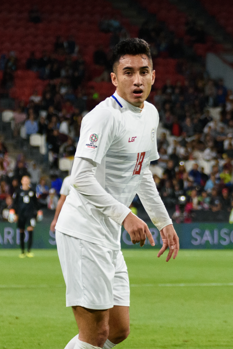 Patrick Reichelt at the Asian Cup 2019